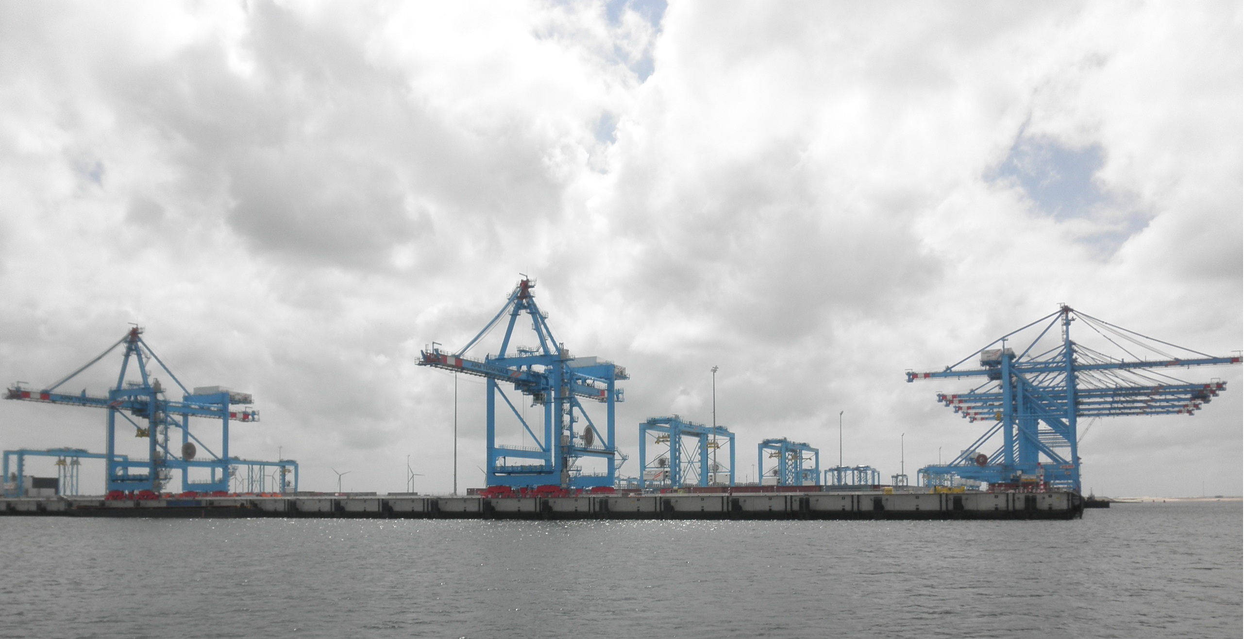 Overview of the cranes at the APM Terminals MV2 terminal in Rotterdam. On the left the cranes for the inland barges and coasters, on the far right the large cranes for the seaships and in the background some Automated Rail Mounted Gantry (ARMGs)